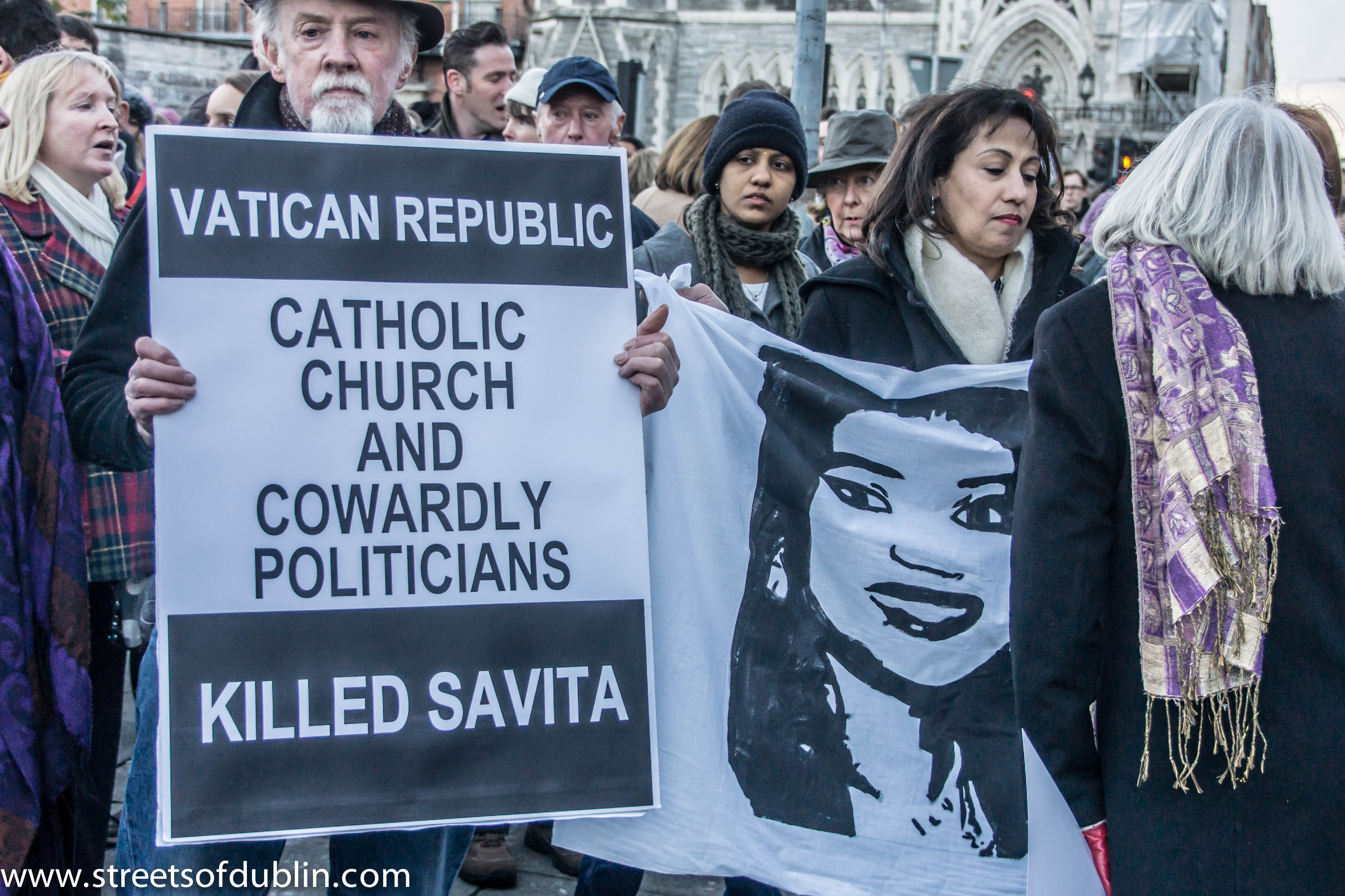 Today a large number of protesters took to the streets of Dublin in response to the unfortunate death of an Indian woman who was refused an abortion. The 31-year-old woman died following a miscarriage at University Hospital Galway. The story behind my photographs has been well reported by international media including CNN, the BBC World Service, Channel 4 News, Sky News, the Sydney Morning Herald, France 24 and New Delhi Television (to mention but a few). Zeenews New Delhi: "The death of an Indian dentist in Ireland, whose life could have been saved through an abortion on Thursday sparked outrage in India with political parties terming it as a violation of human rights while her parents demanded an international probe" Halappanavar's parents demanded an "international probe" and said Irish law on abortion should be changed. "Only following rules, what about humanity? They killed my daughter to save a foetus. Only a mother knows the pain," said Halappanavar's mother, while her father urged the government to act accordingly. There is another protest scheduled for Wednesday in Dublin.